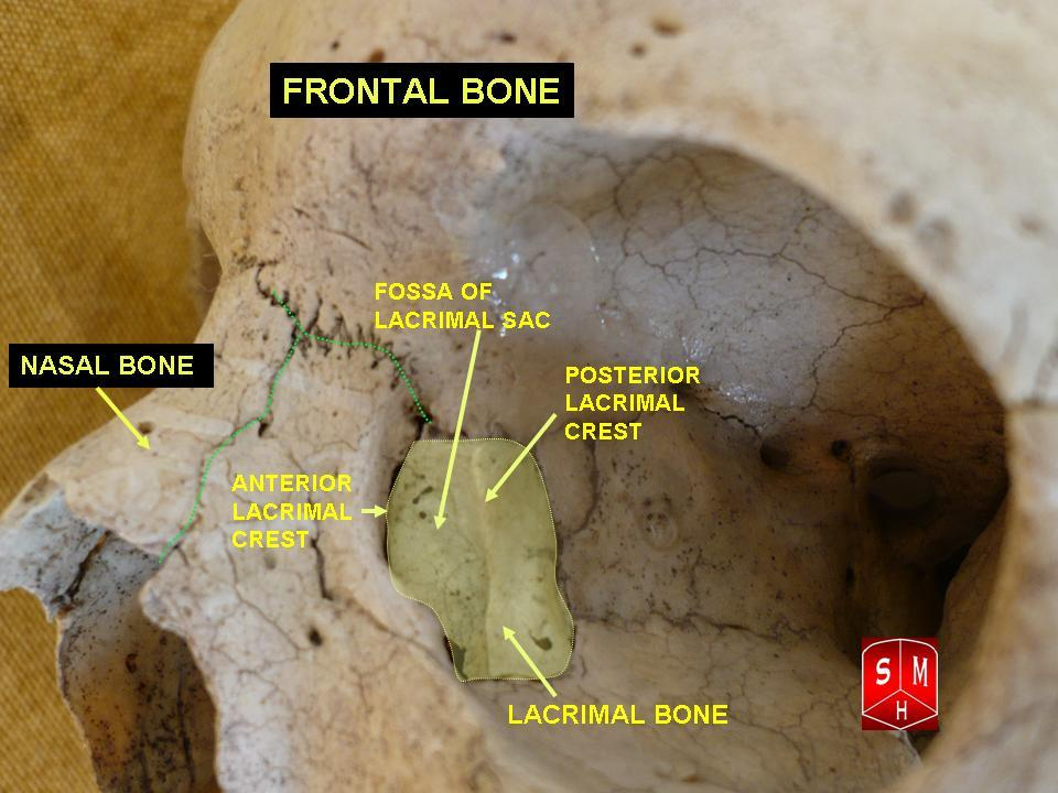 Lacrimal and nasal bones